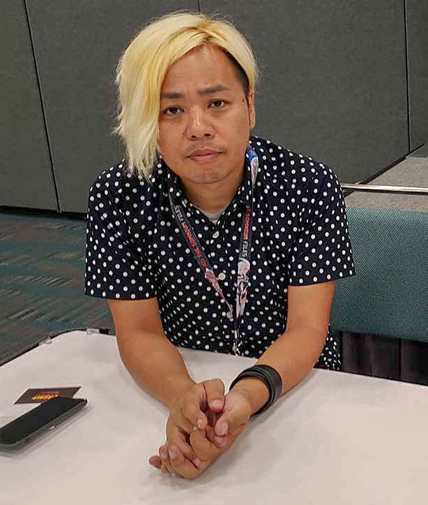 A photo of character designer Yusuke Kozaki at Anime Expo 2019.